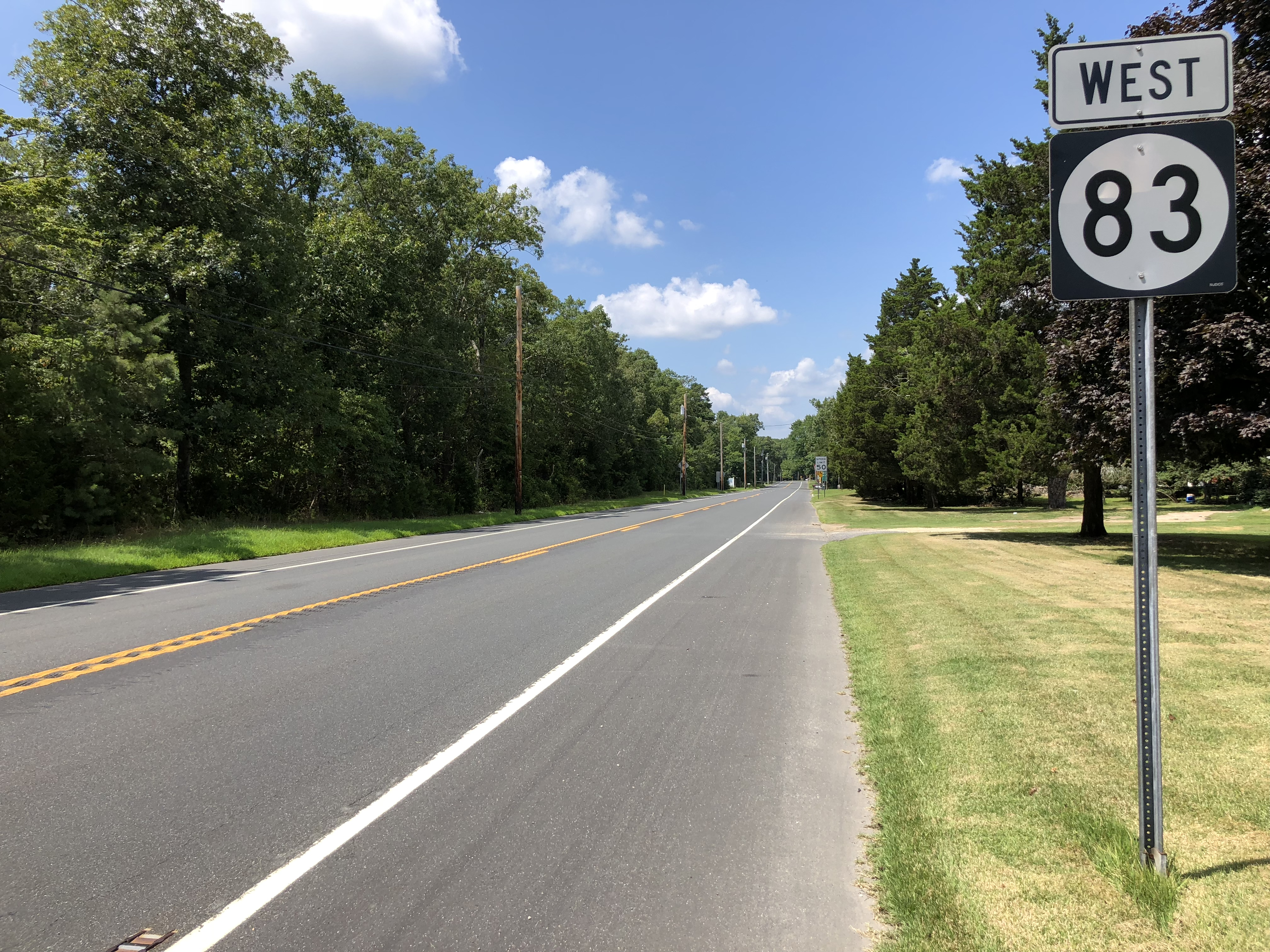 View west along New Jersey Route 83 just west of Cape May County Route 608 (Kings Highway) in Dennis Township, Cape May County, New Jersey